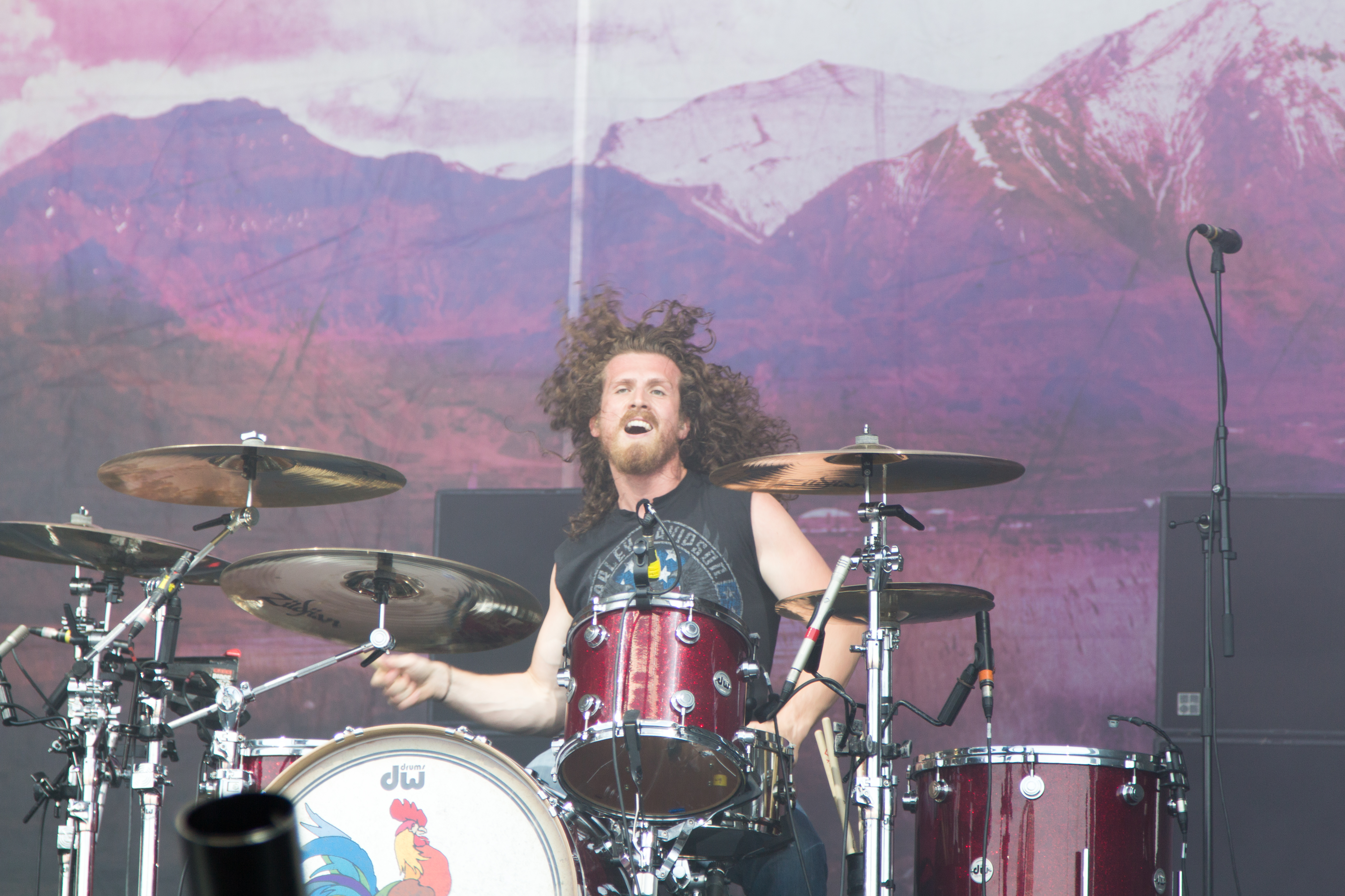 John Fred Young from Back Stone Cherry at Nova Rock 2014